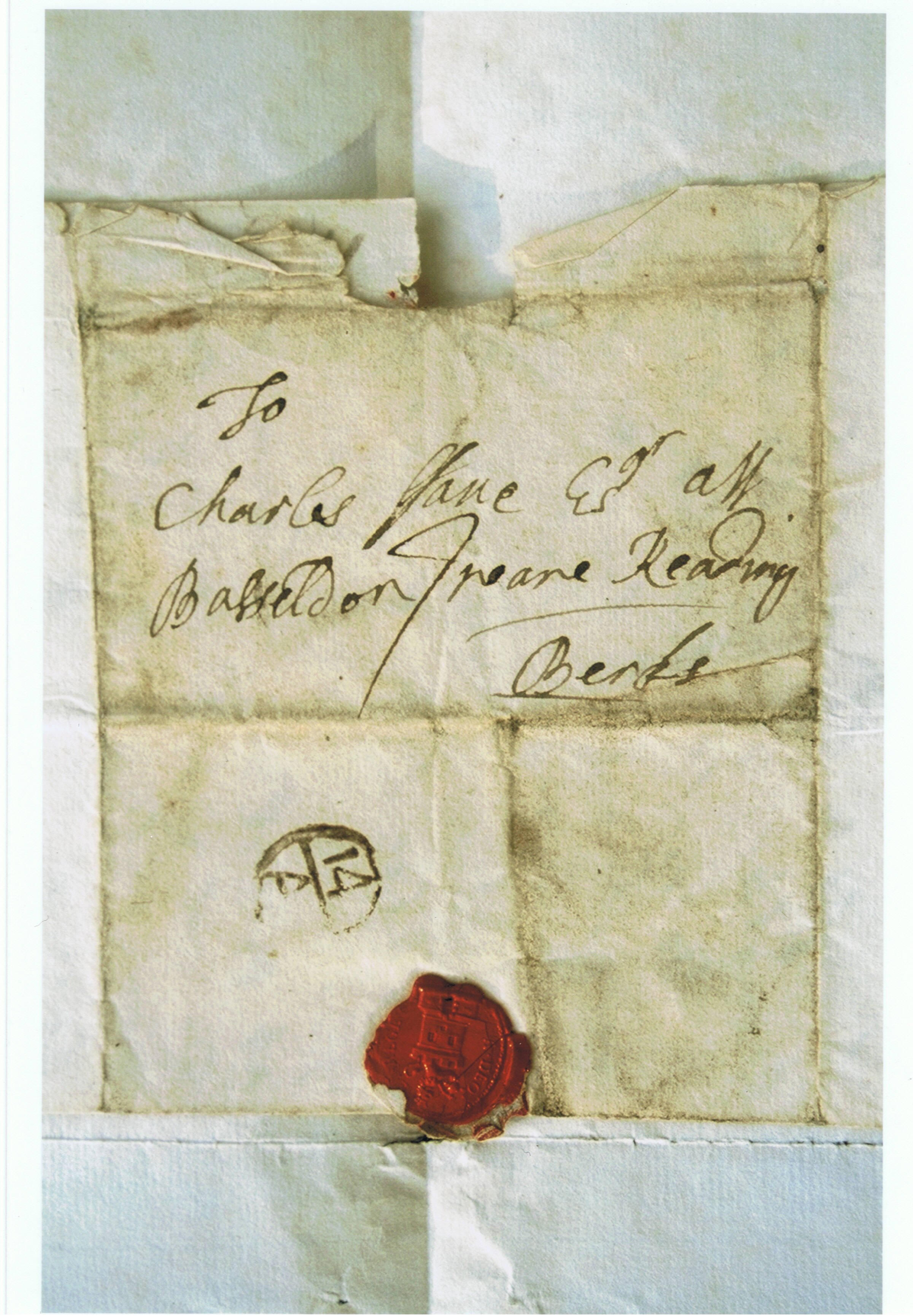 photograph (R. de Salis, January 2006) of part of letter to Charles ffane (a Viscount from 1718), from his wife, 1714.Rodolph 10:50, 26 October 2007 (UTC)